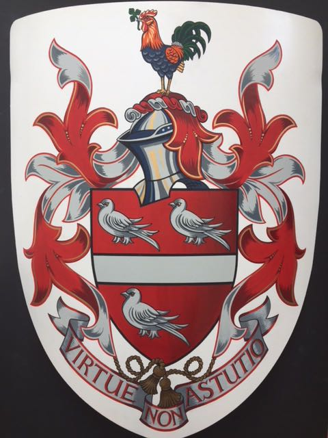 Bidlake coast of arms